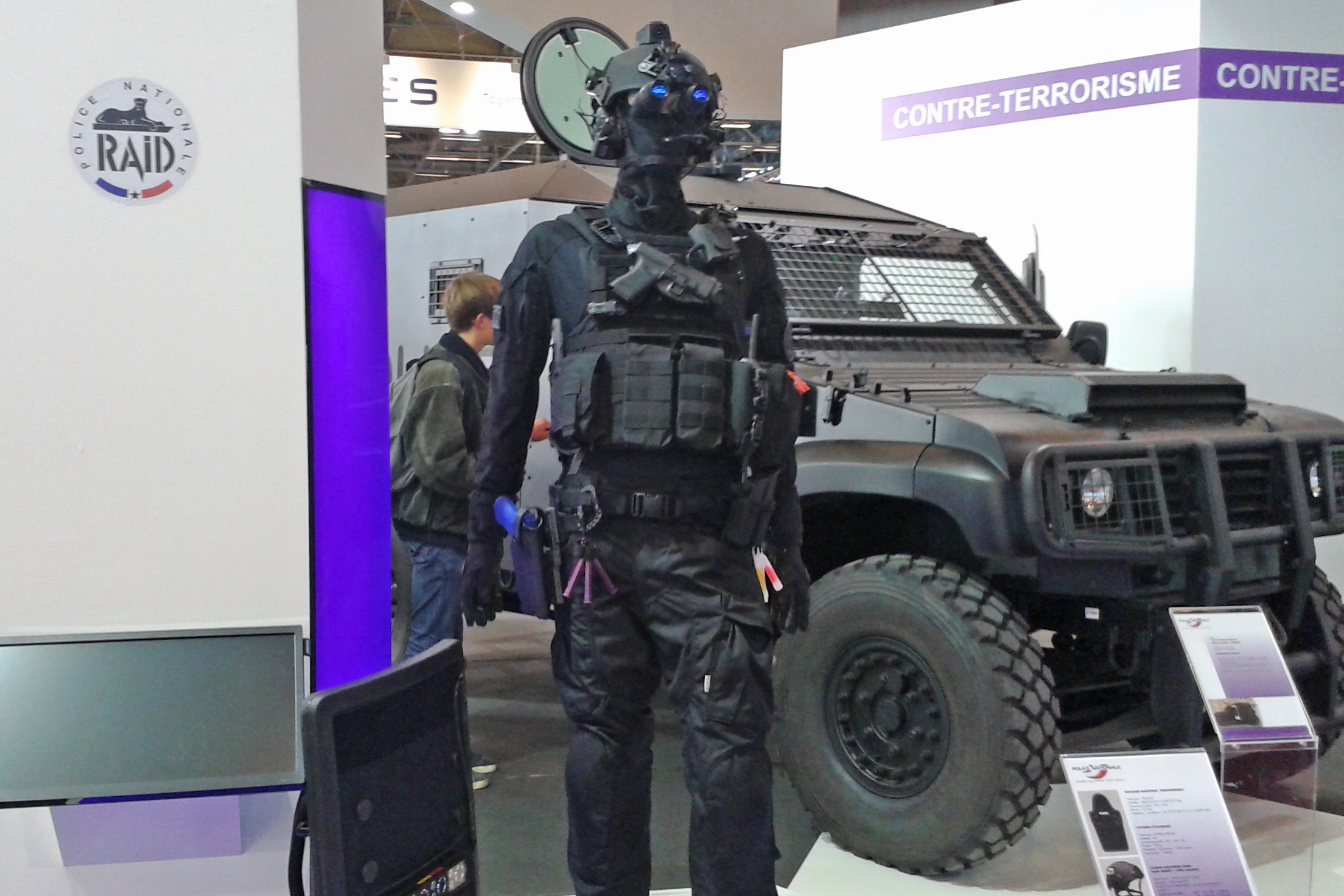 RAID equipment on display during the Milipol exhibition - Paris, November 2015